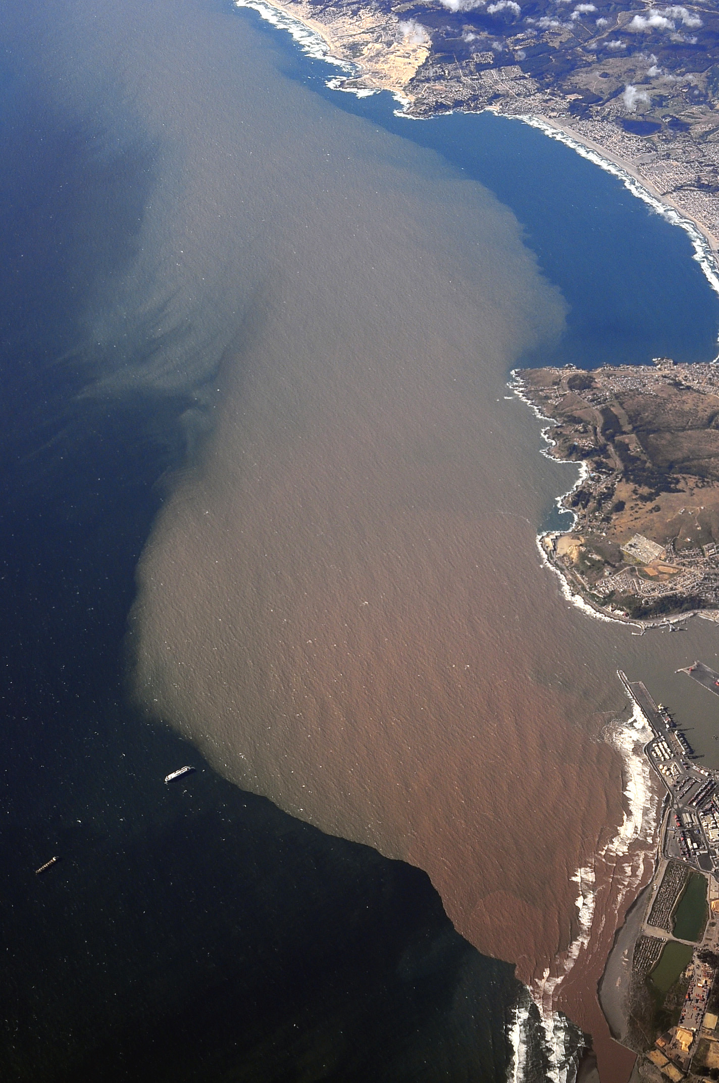 Aerial view of the coastal pollution due by sludge carried out by the Maipo River, San Antonio, Valparaíso, Chile